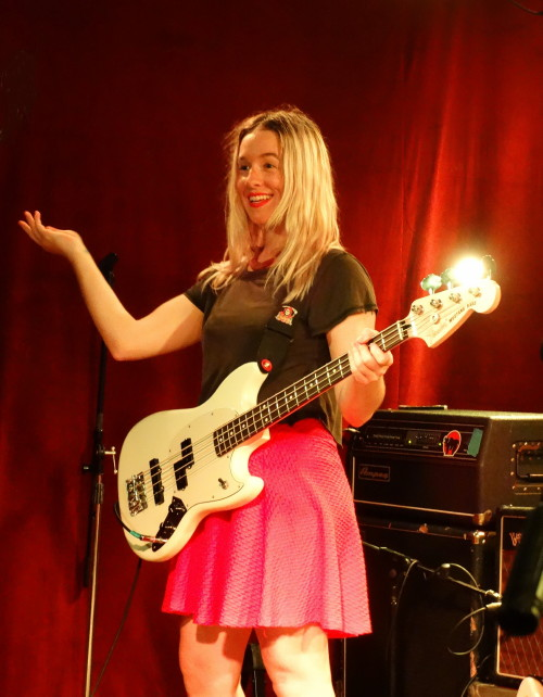 Lindsey Mills of Surfer Blood on stage at The Saint in Asbury Park, NJ, in August, 2017. Photo by LHCollins.